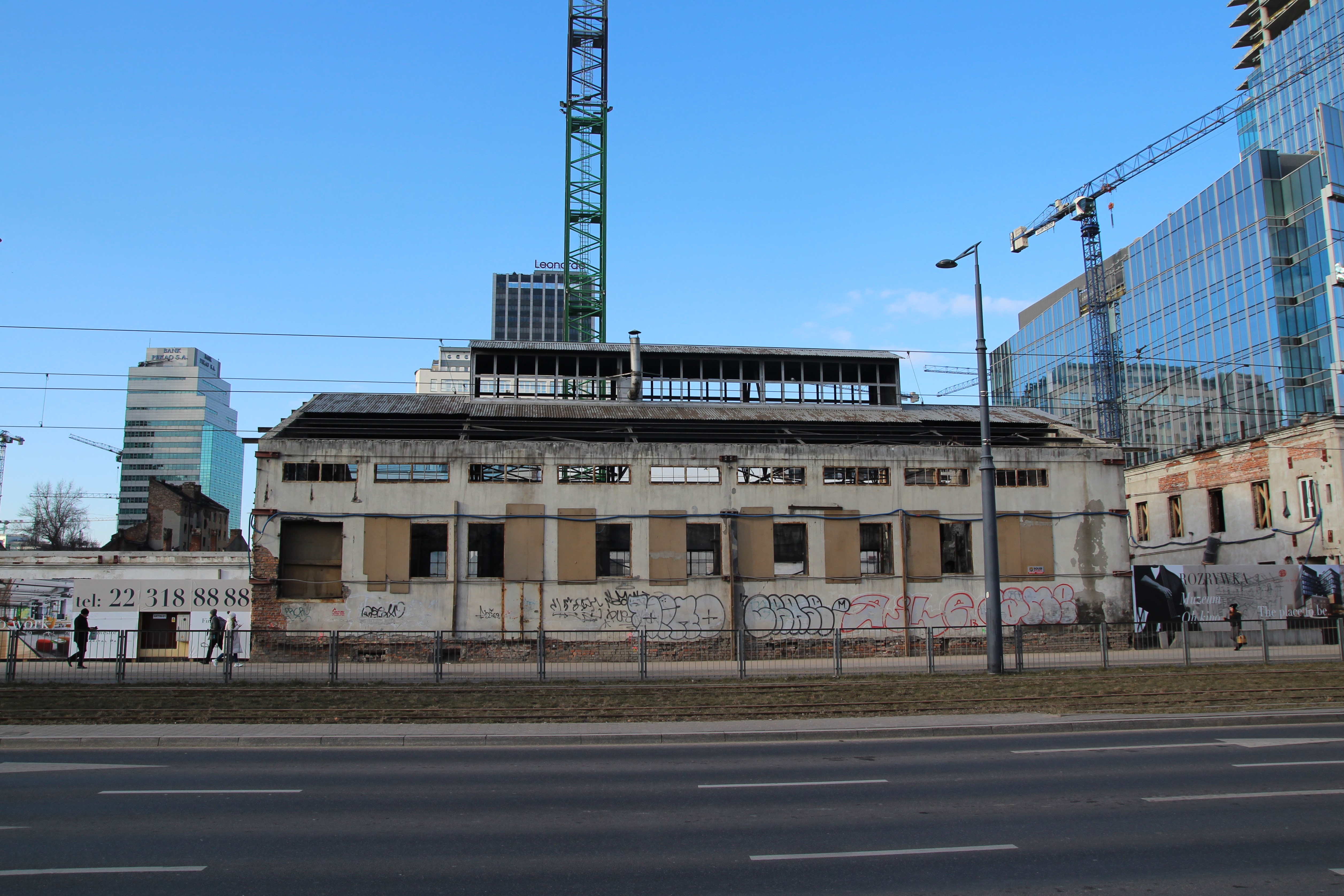 Norblin Factory Development, Warsaw, Prosta